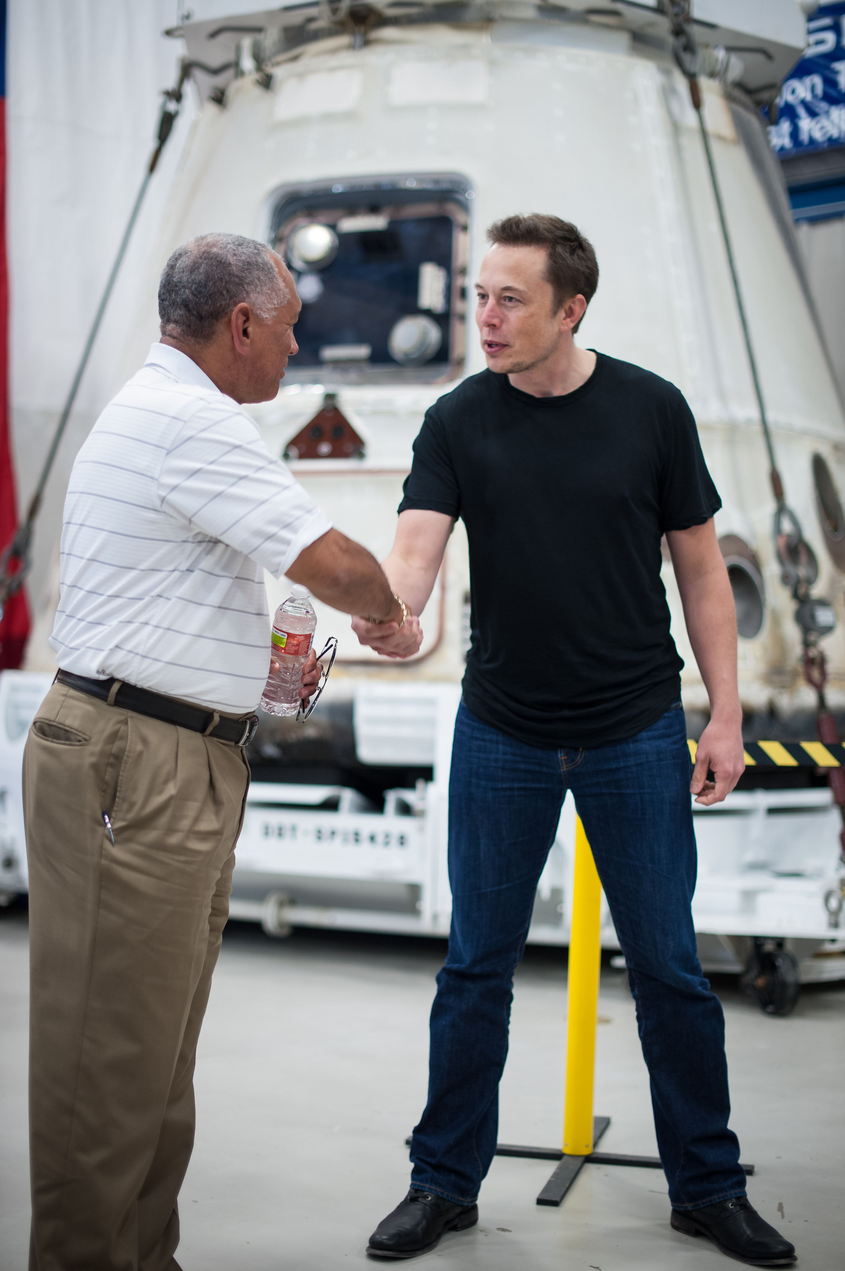 NASA Administrator Charles Bolden, left, congratulates SpaceX CEO and Chief Designer Elon Musk in front of the historic Dragon capsule that returned to Earth on May 31 following the first successful mission by a private company to carry supplies to the International Space Station on June 13, 2012 at the SpaceX facility in McGregor, Texas. Bolden and Musk also thanked the more than 150 SpaceX employees working at the McGregor facility for their role in the historic mission.